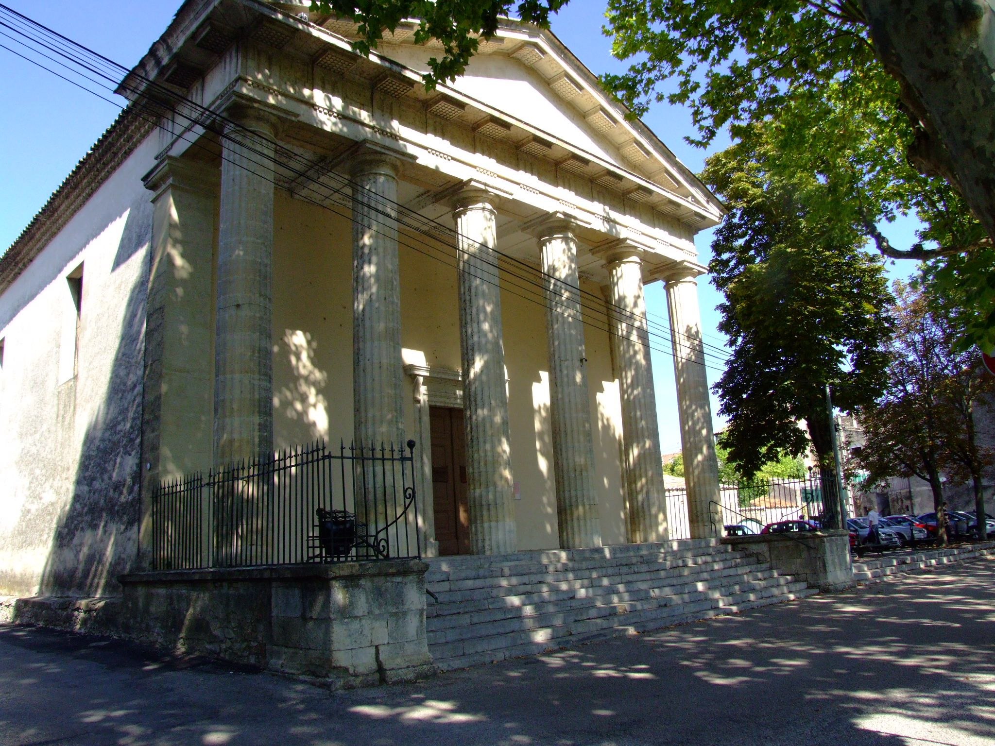 Quissac is village on the banks of the Vidourle in the department of Gard, France, some 20 km north of Sommières.. Temple.